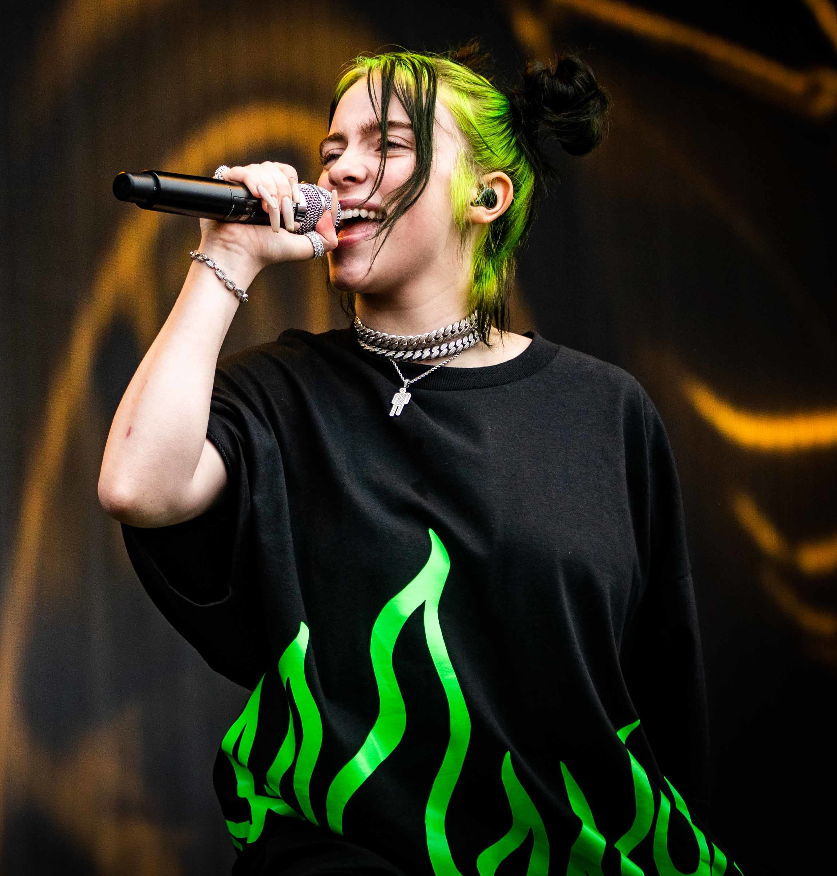 © Lars Crommelinck Photography BillieEilish #Pukkelpop2019